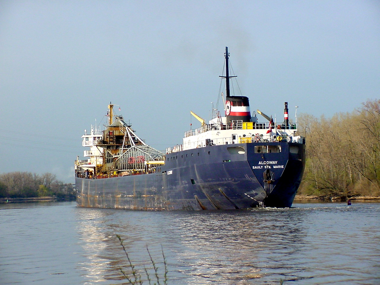 Algobay on the Saginaq River.